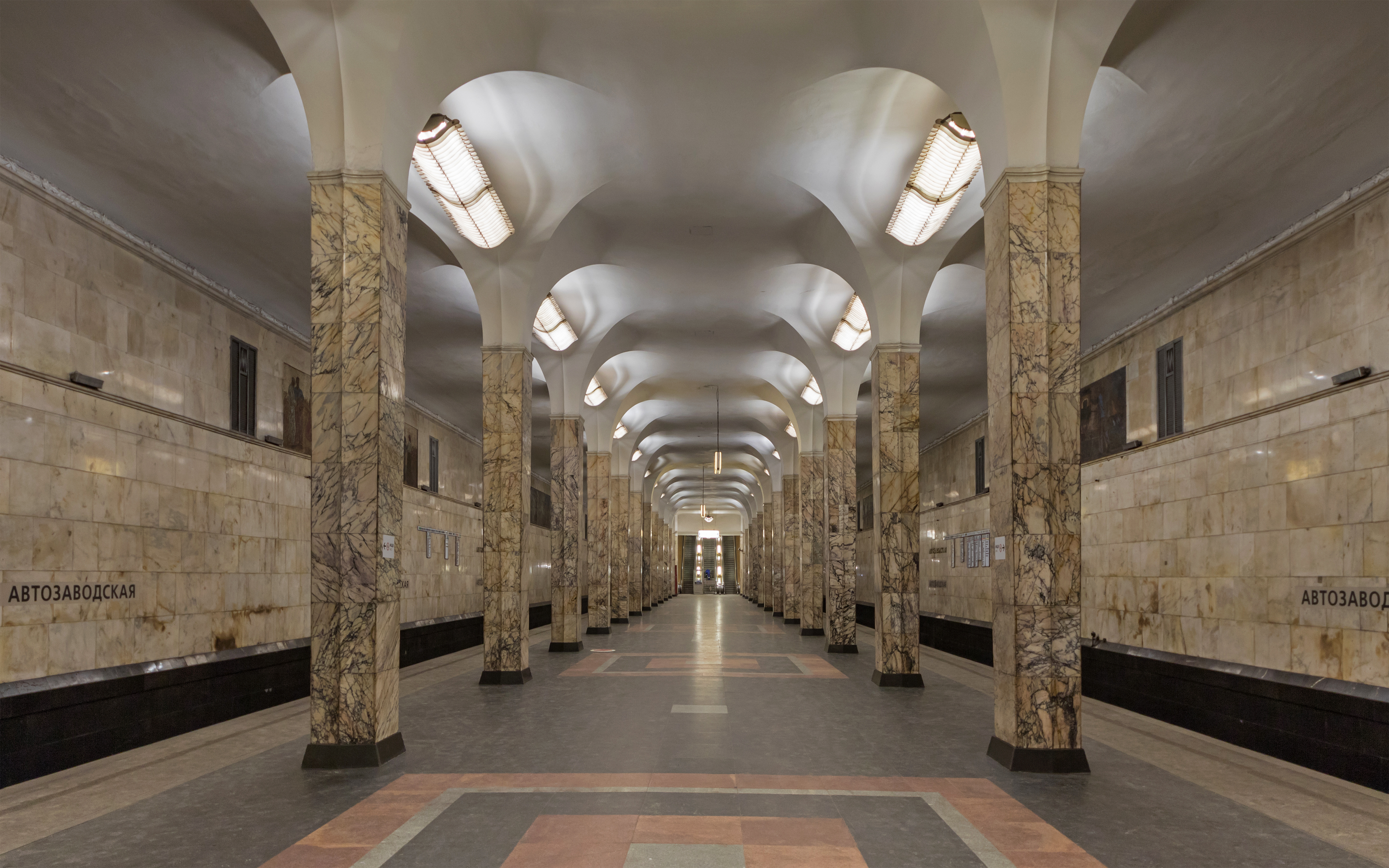 Avtozavodskaya metro station in Moscow, Russia